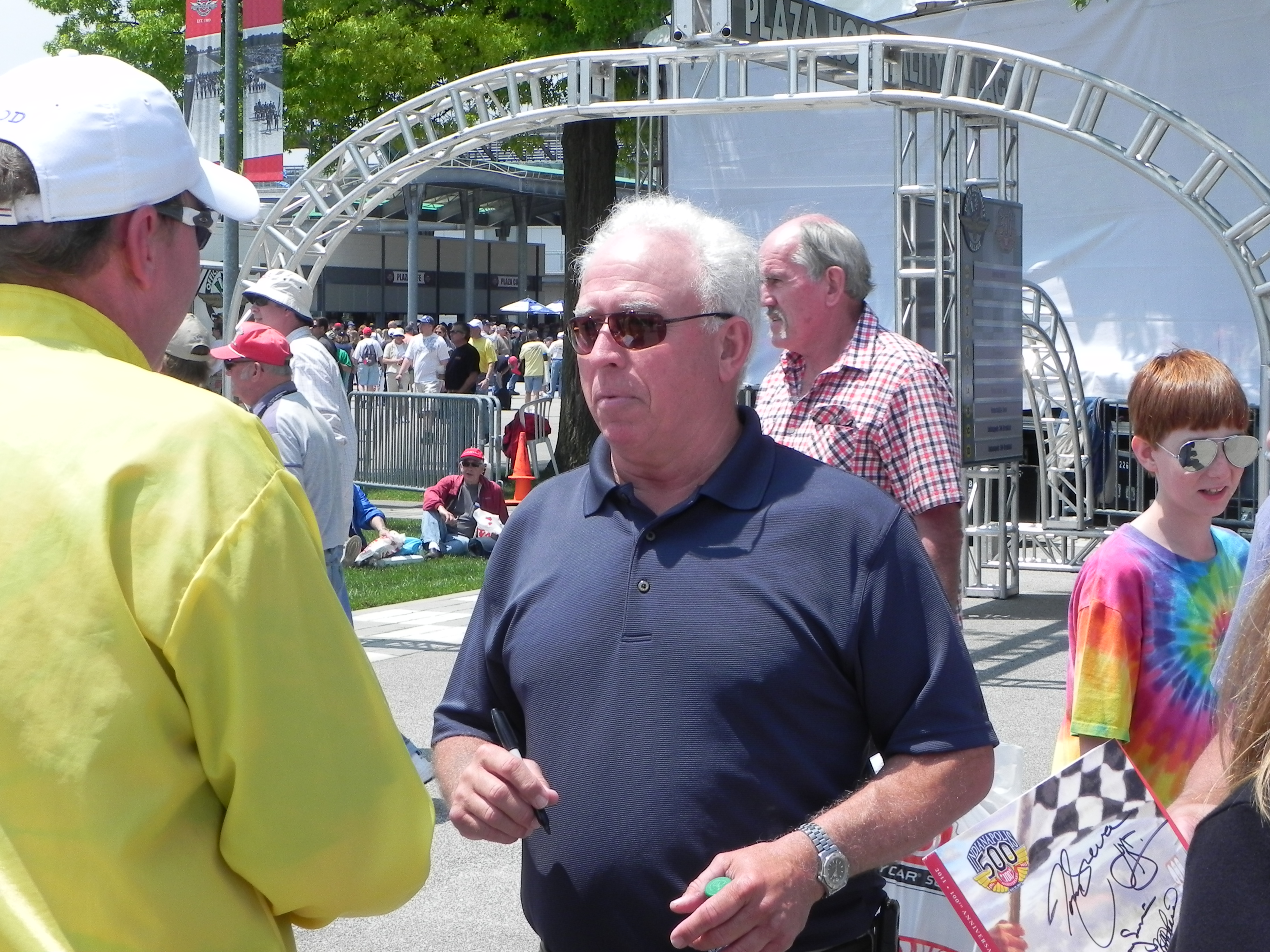 Indy driver Pancho Carter at the 2011 Indianapolis 500 Legends Day